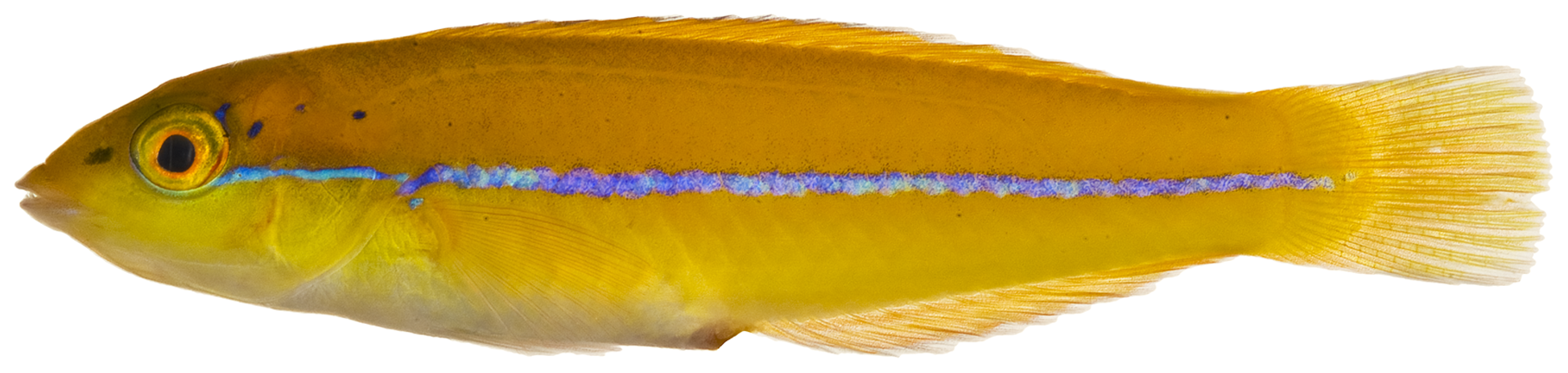 Halichoeres garnoti (Valenciennes, 1839)—yellowhead wrasse, 46.4 mm SL, juvenile color phase, showing the characteristic blue stripe on a yellow body. Photo by JT Williams.